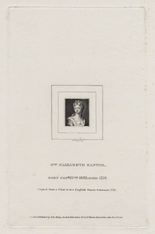 Line engraving of Elizabeth Elstob by Burnet Reading, published by Edward Evans